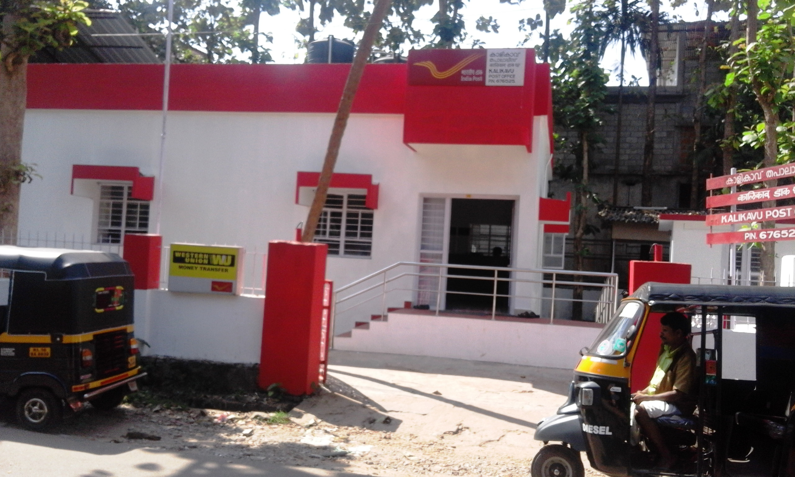 Kalikavu, Wandoor, Malappuram Dt., Kerala, India.